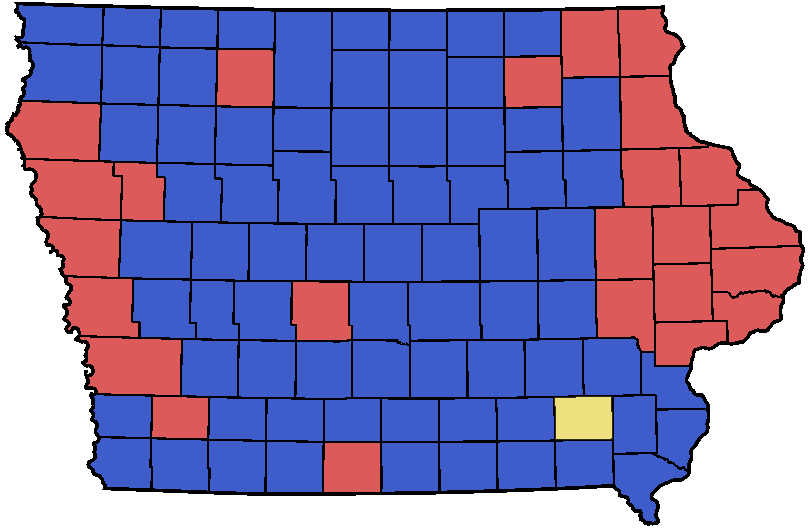 2008 Iowa Republican Caucus county map with the results. Blue denotes counties won by Mike Huckabee, Red denotes those won by Mitt Romney, and Yellow denotes those won by Ron Paul.